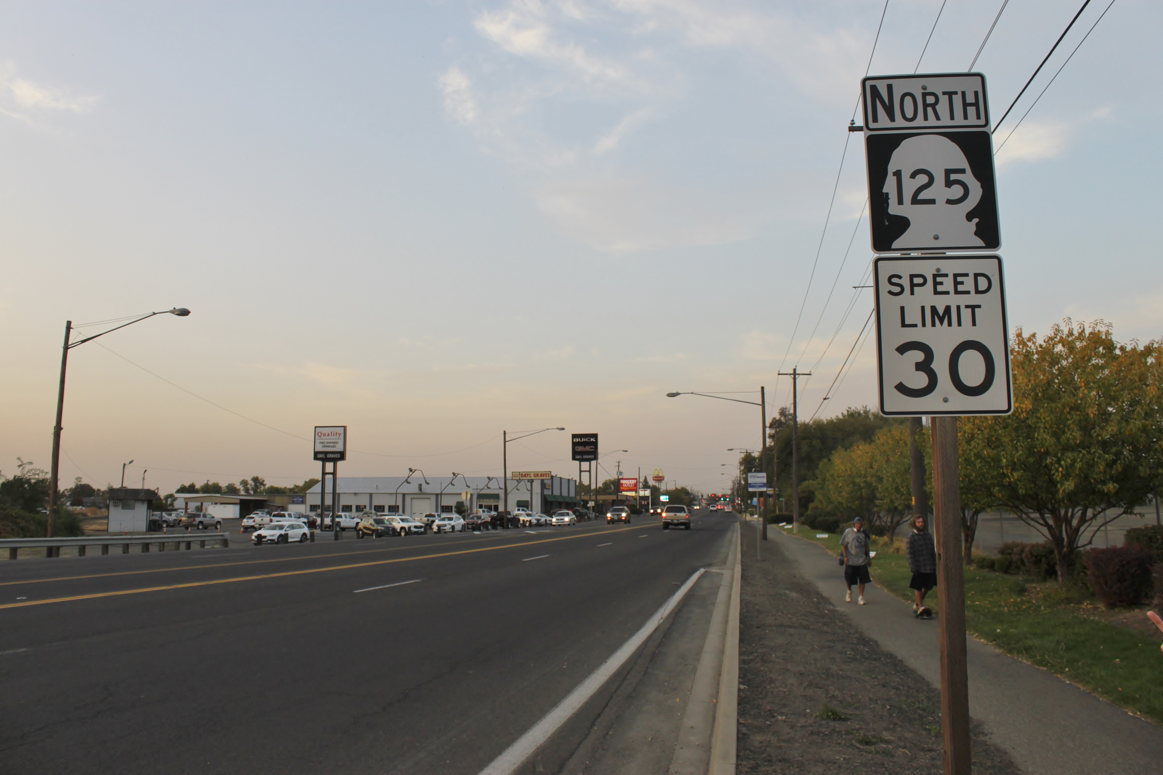 Looking northbound on State Route 125 on 13th Avenue near the Walla Walla County Fairgrounds in Walla Walla.